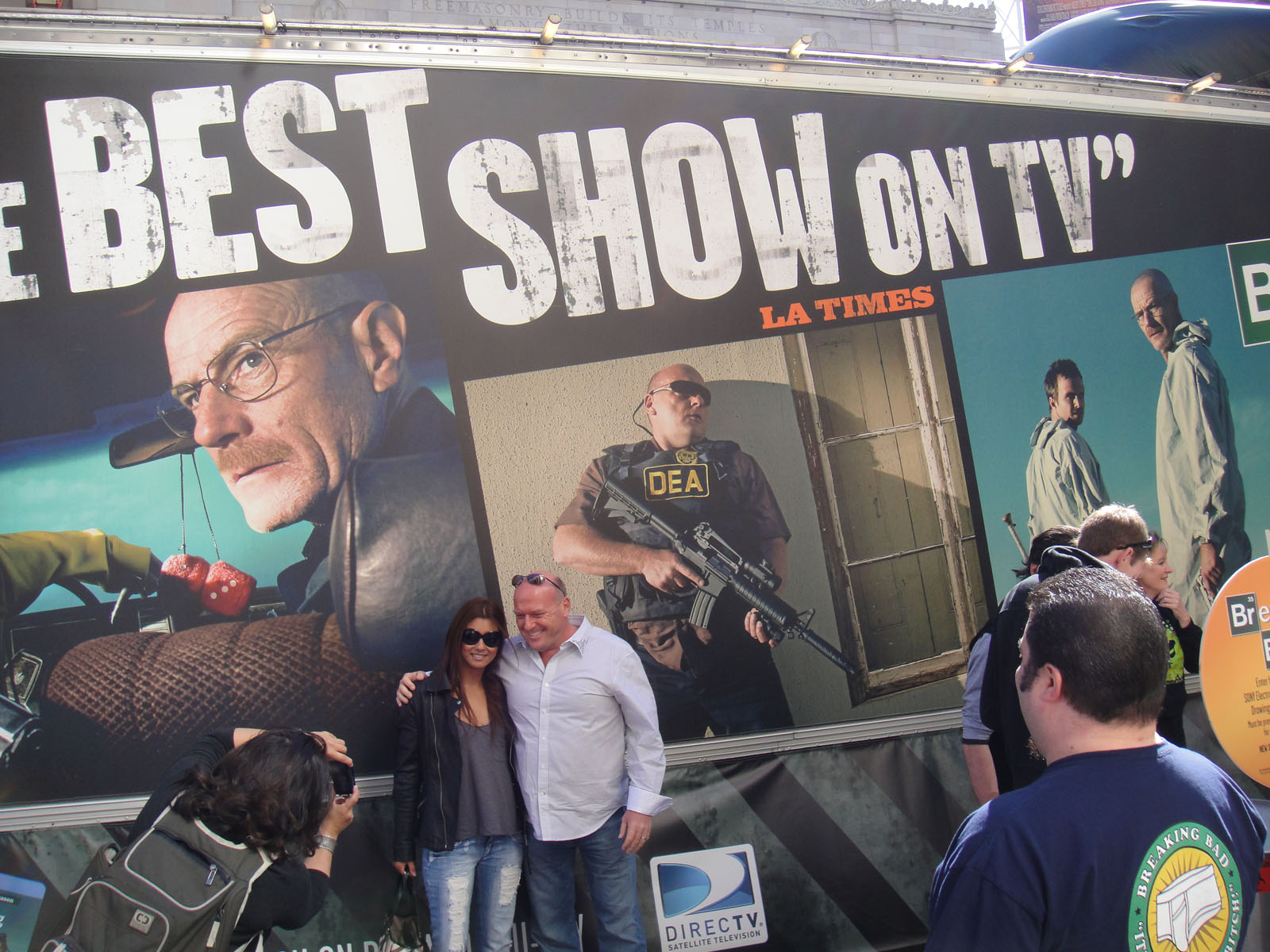 Actor Dean Norris ("Hank") poses with a fan at the Breaking Bad Screening Lab in Hollywood Dean Norris plays Walter White's DEA brother-in-law Hank on Breaking Bad.